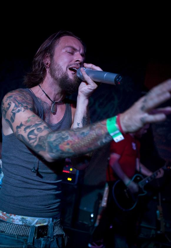 Aruban/Dutch rock singer Roger Peterson of Intwine performing at the Köln Underground concert on August 14th, 2009.